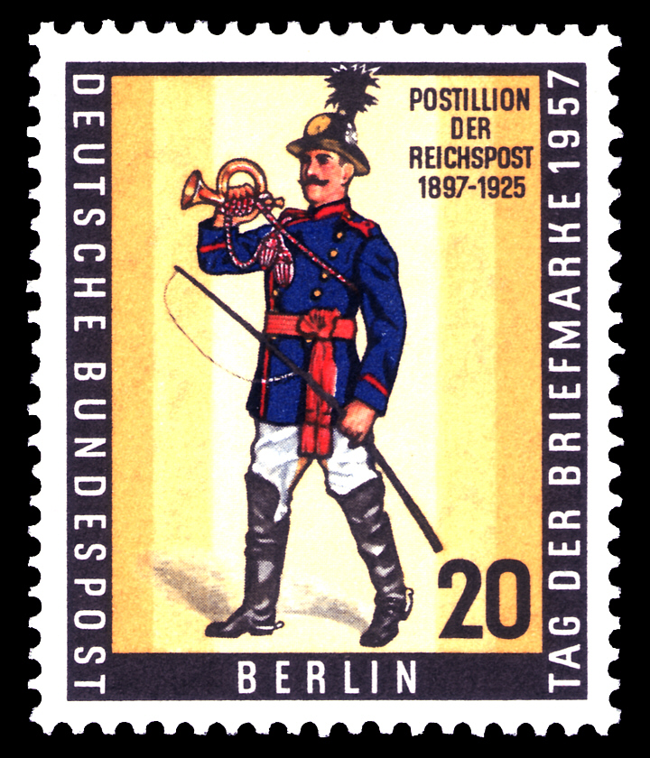 stamp for Day of Stamps and stamp exhibition BEPHILA in Berlin